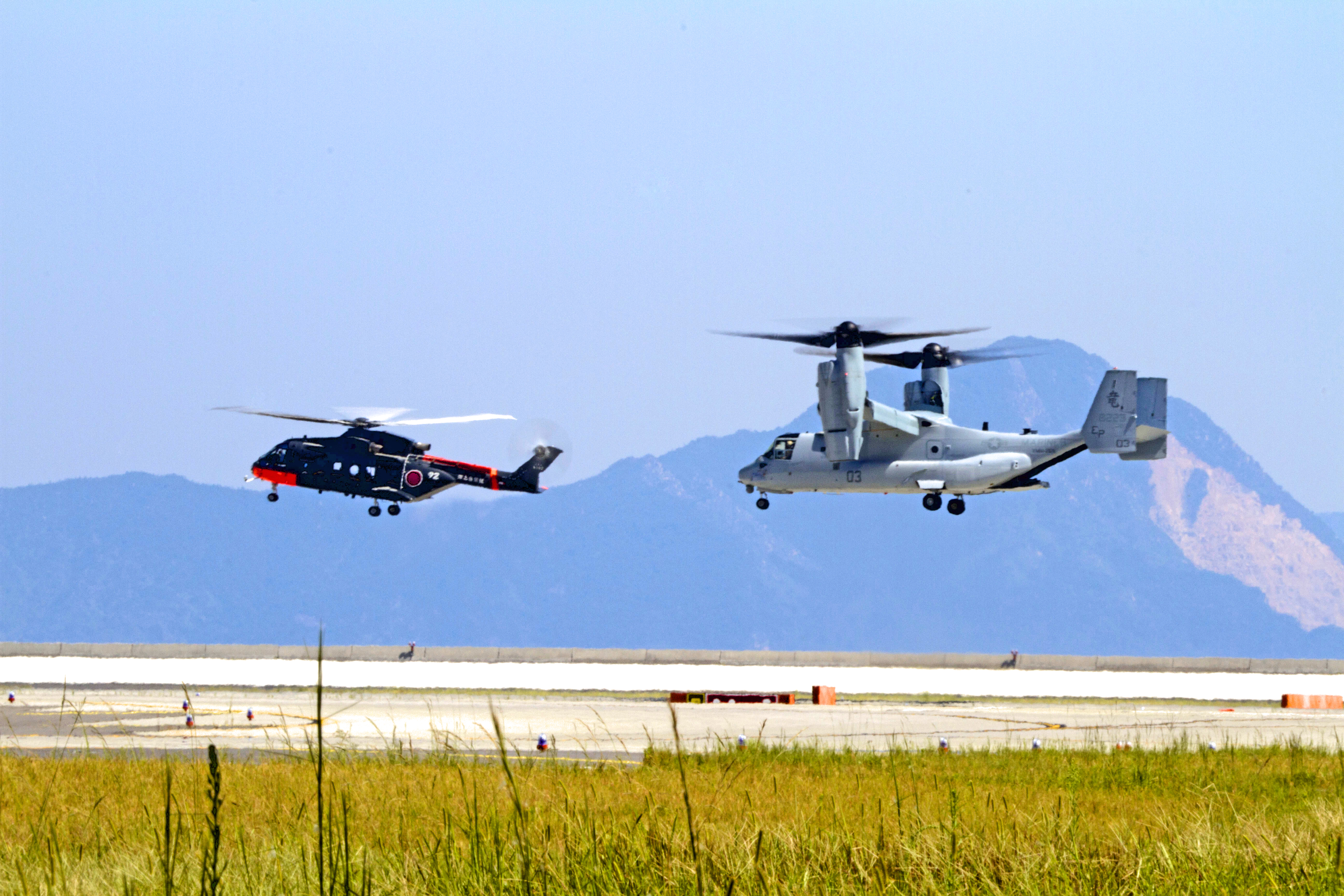 Marine Corps aircrews begin conducting MV-22 aircraft functional check flights and pilot proficiency flights aboard Marine Corps Air Station Iwakuni, Japan, Sept. 21, 2012. These flights, which will occur over the next several weeks, will take place mostly over water, with any over land portion conducted within the MCAS Iwakuni airspace and traffic pattern. The aircraft is part of Marine Medium Tiltrotor Squadron 265. VMM-265 aircraft are based at, and will operate out of Marine Corps Air Station Futenma. Basing the Osprey in Okinawa will significantly strengthen the United States' ability to provide for the defense of Japan, perform humanitarian assistance and disaster relief operations and fulfill other Alliance roles.